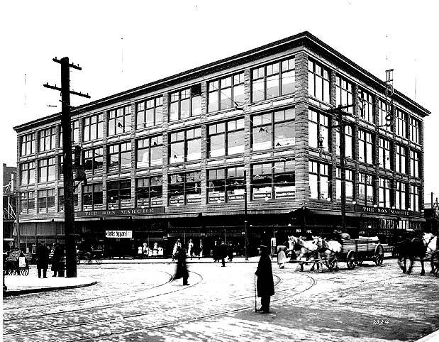 Subjects (LCTGM): Department stores--Washington (State)--Seattle; Carts & wagons--Washington (State)--Seattle Subjects (LCSH): Bon Marche